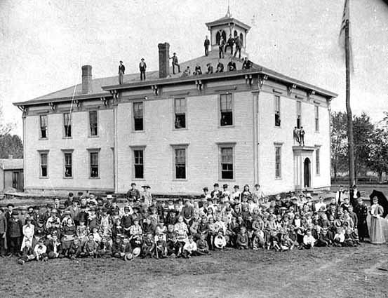 Schoolhouse in Dodge Center, Minnesota, 1886